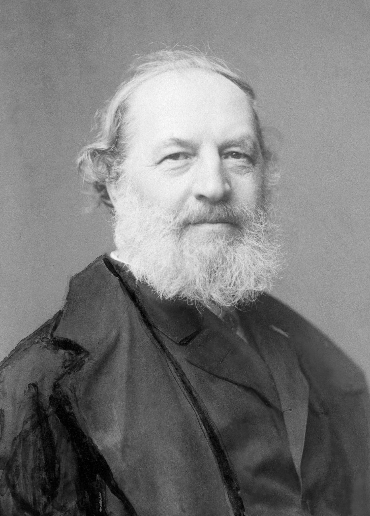 Bernhard Plockhorst.Photographie von J. C. Schaarwächter, 1900